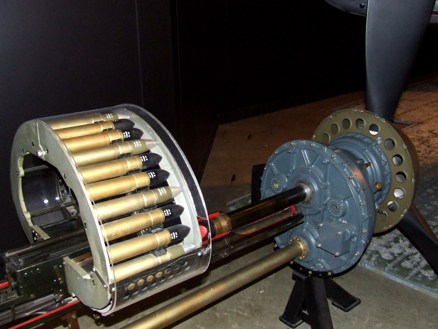 37mm T9 cannon in P-39 and P-63